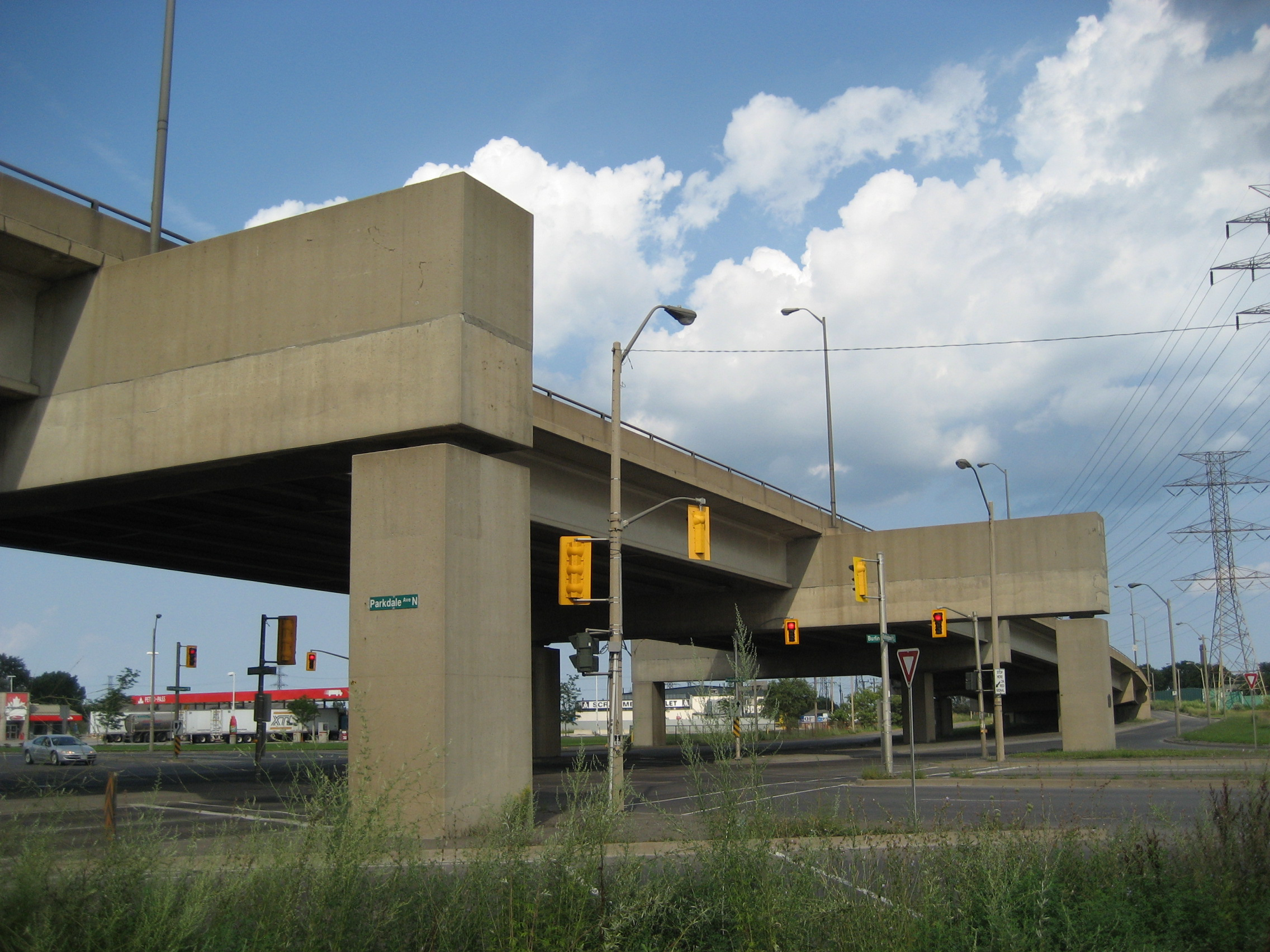 Overpass carrying Nikola Tesla Boulevard over Burlington Street and Parkdale Avenue in Hamilton, Ontario, Canada. Facing east.